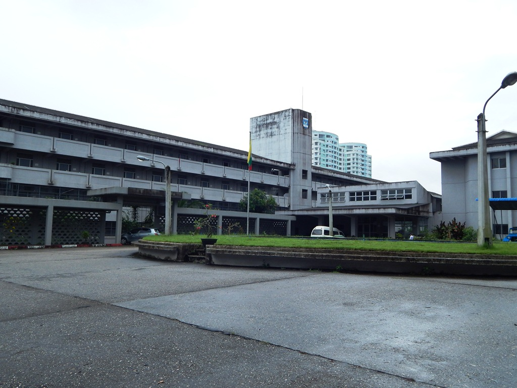 Yangon Institute of Nursing, Burma